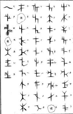 Tsushima characters It is used for divine work.